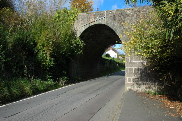 Incline bridge at Redbrook Former colliery railway bridge over the B4231 at Redbrook.